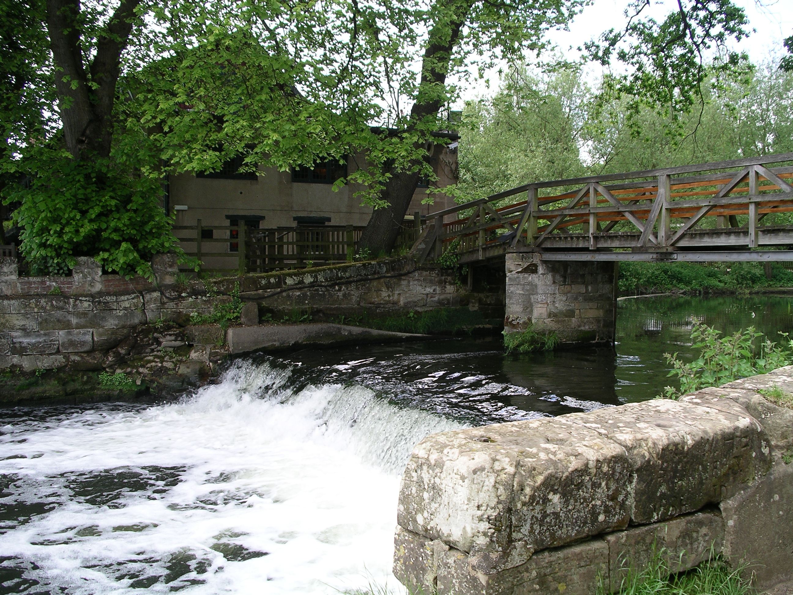 The weir and footbridge at Saxon Mill, Warwickshire, England.